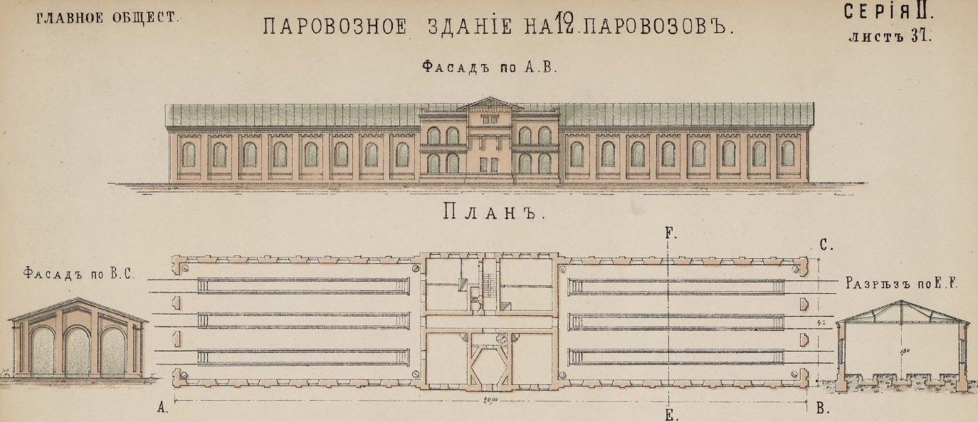 Railway depot. Saint Petersburg–Warsaw railway. Russian Empire